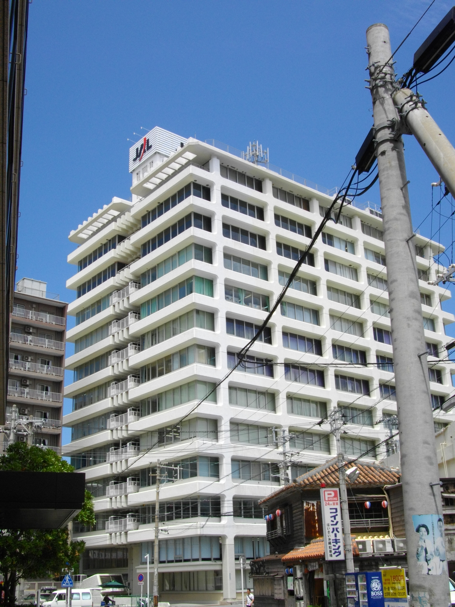 Kokuba-Gumi Head Office